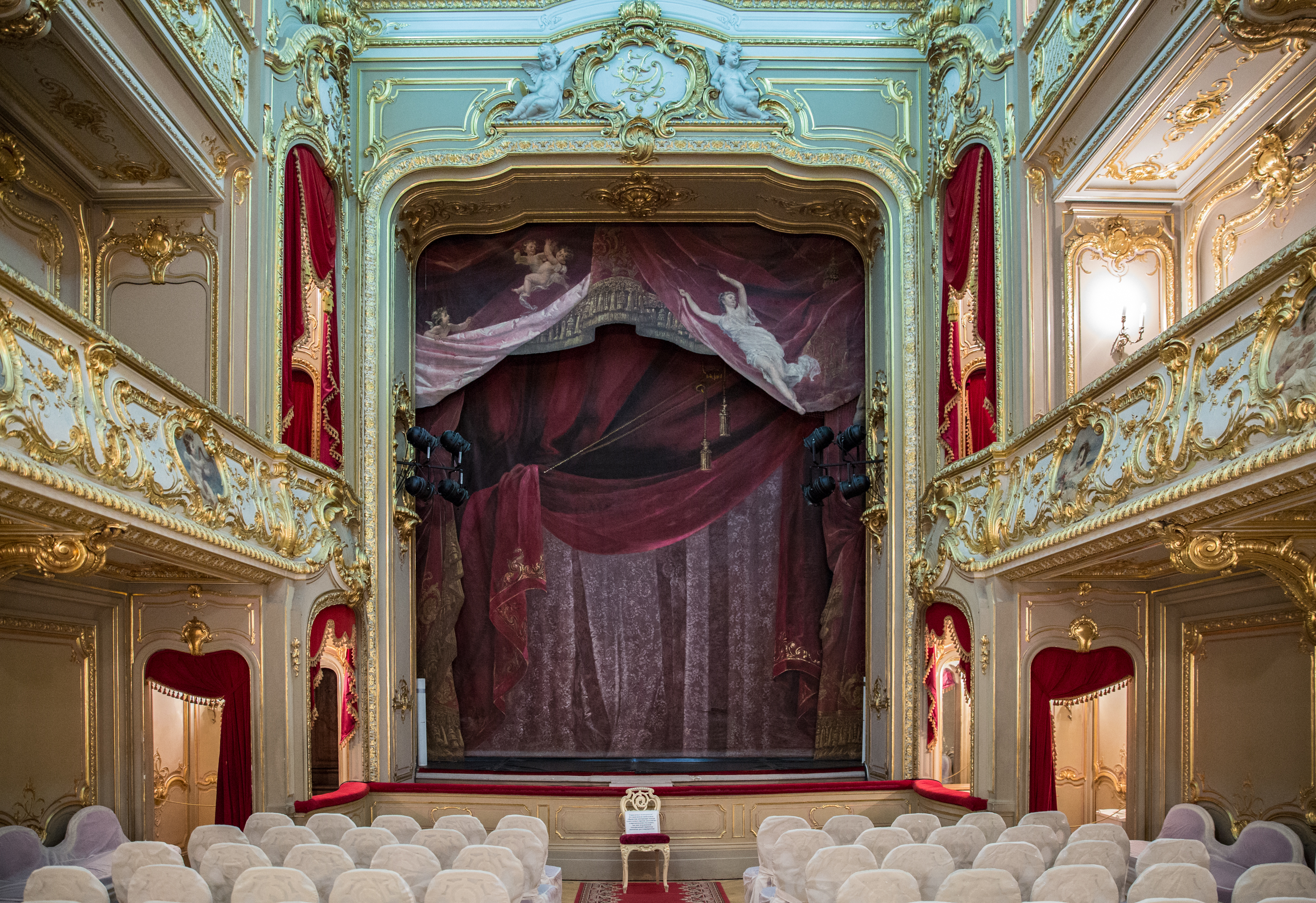 Saint Petersburg, Russia Yusupov palace, Theater